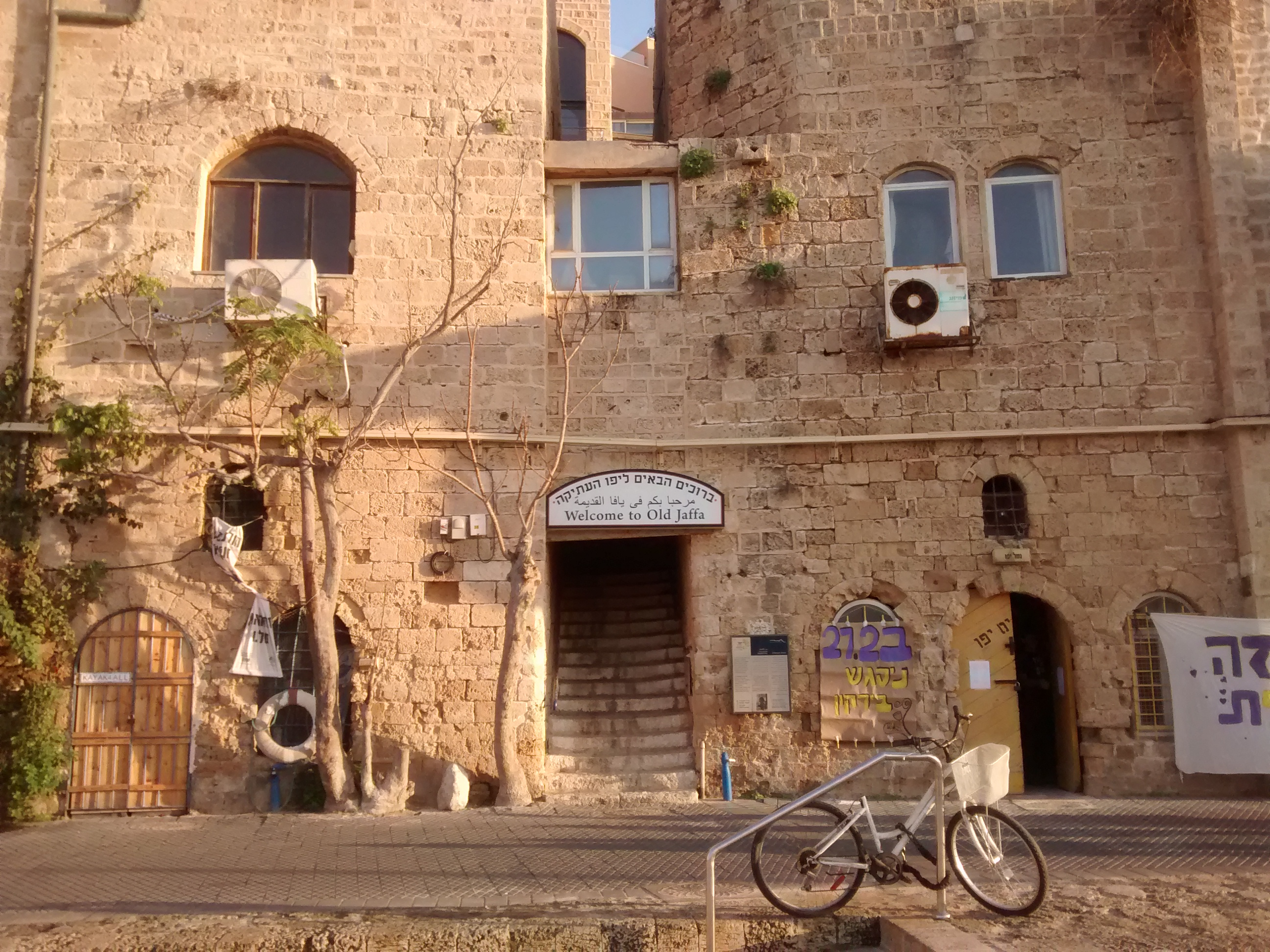 Old Jaffa